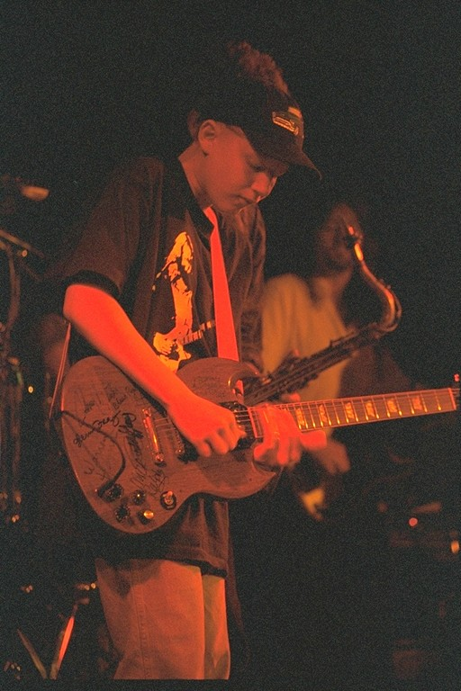 Young Derek Trucks with the Greg Allman Band in San Francisco.